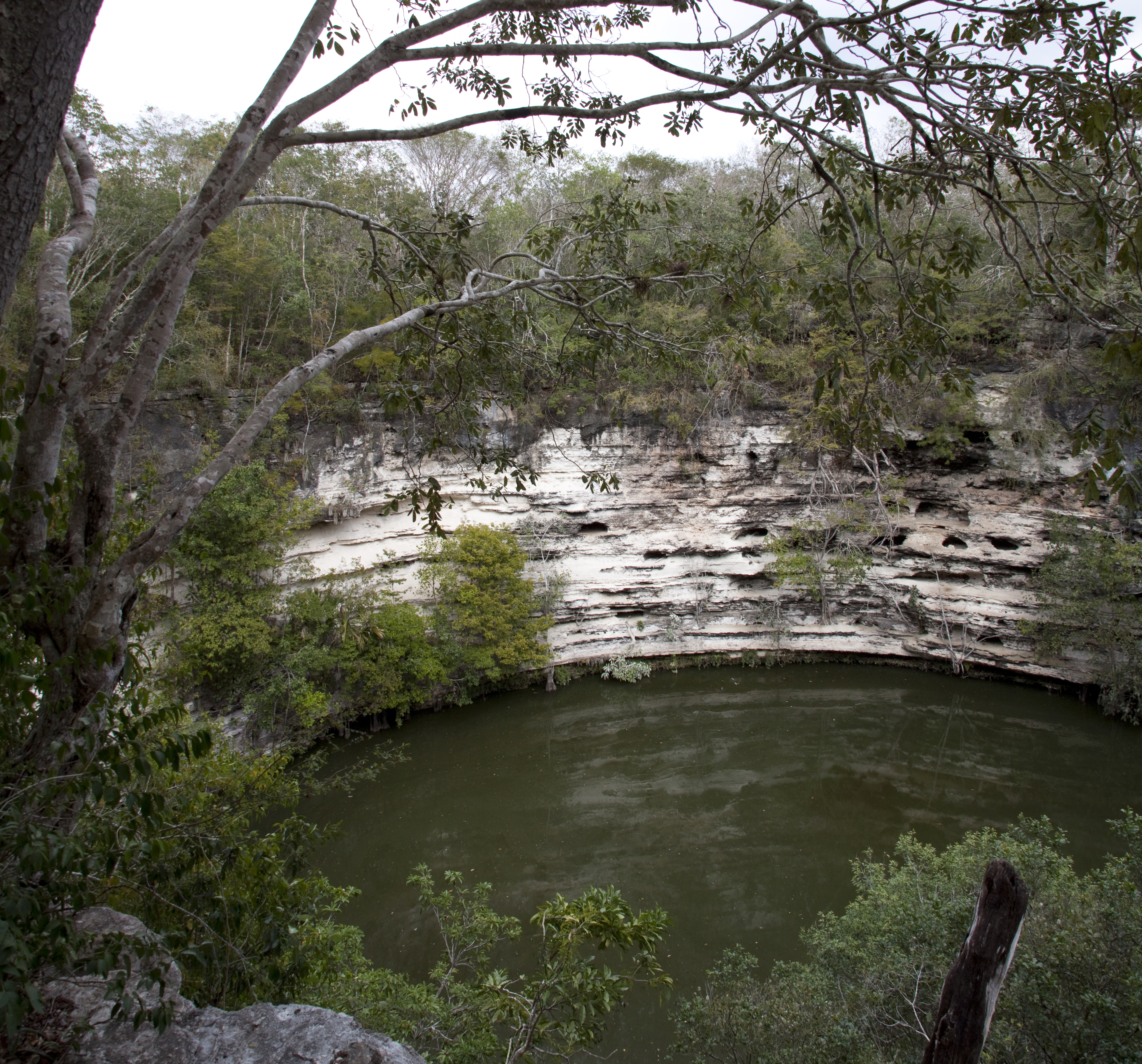 Sacred Cenote